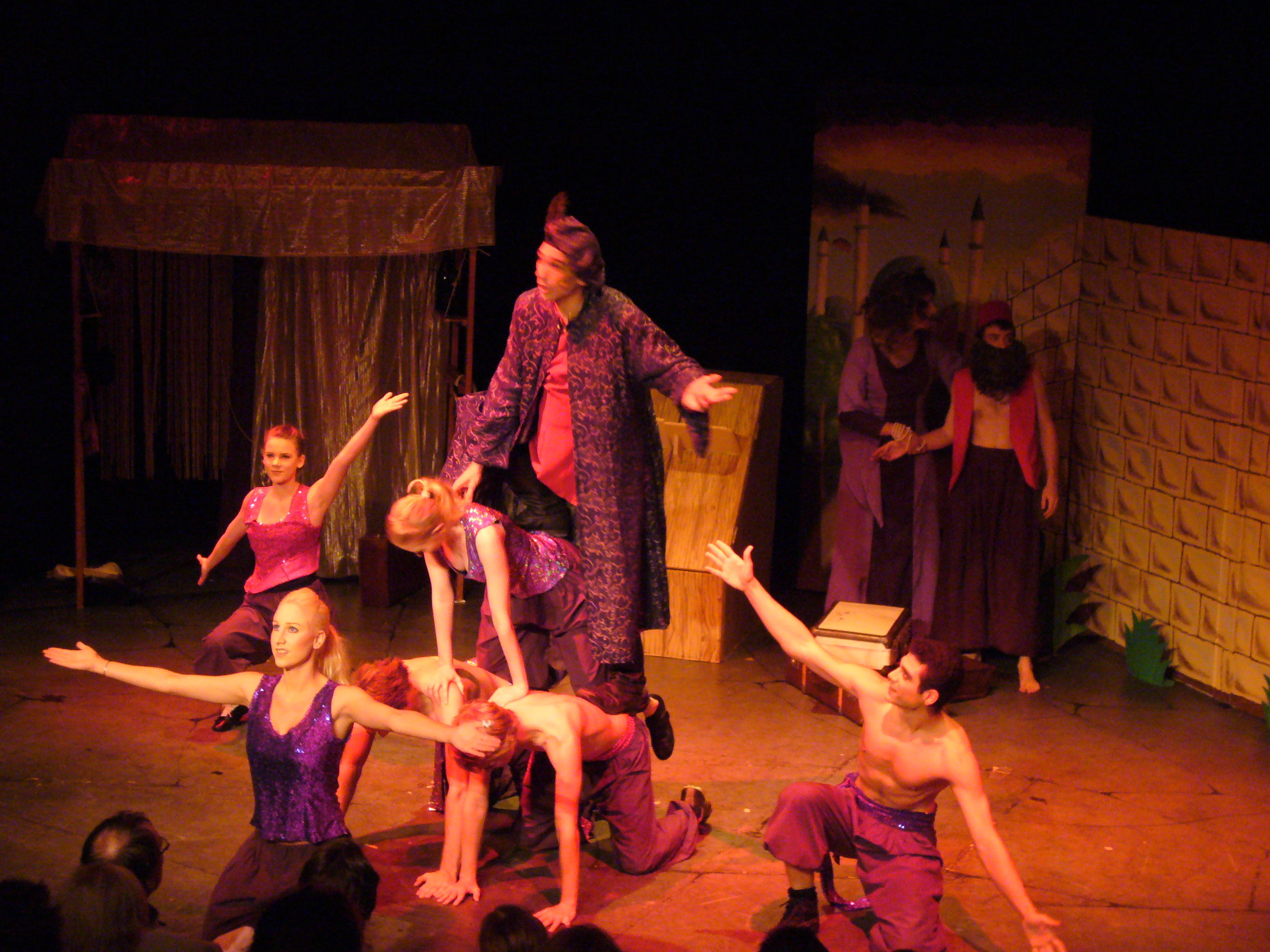 Scene from "Osman", by the spex organization Fysikalen